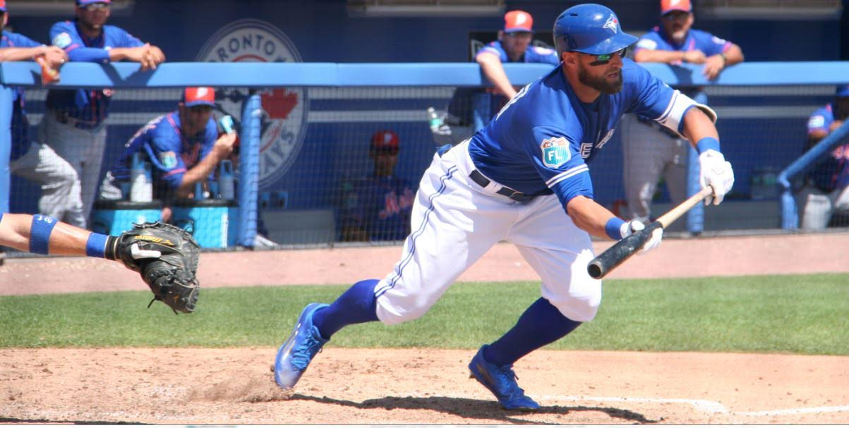 Kevin Pillar squaring for a bunt during Spring Training, March, 23, 2016